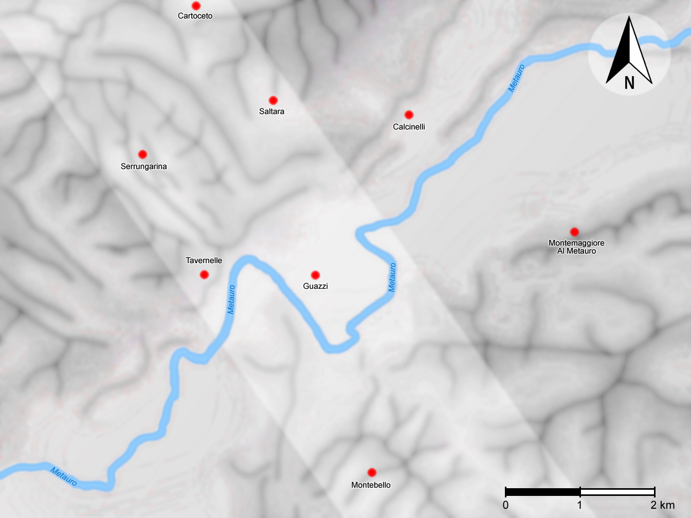 Presumed venue of the Battle of the Metaurus.